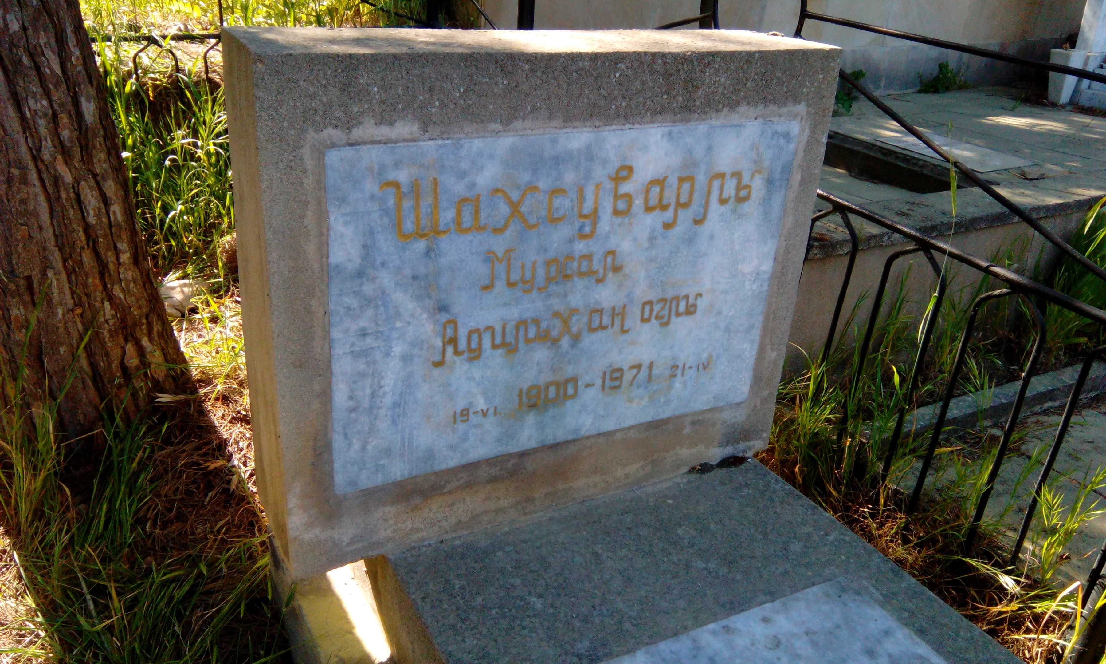 Grave of Mursal Shahsuvarly in Baku, Azerbaijan.